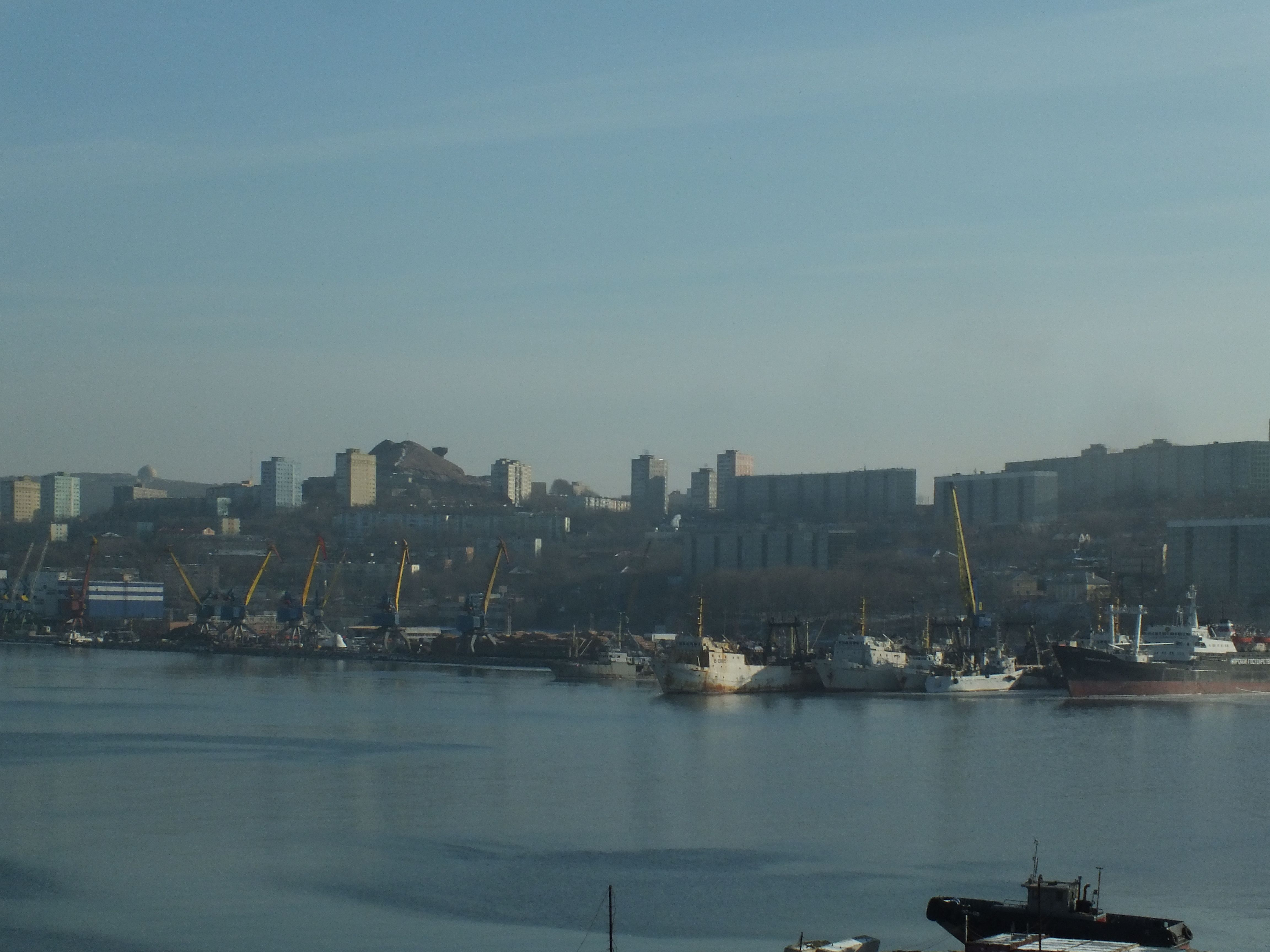 Zolotoy Rog